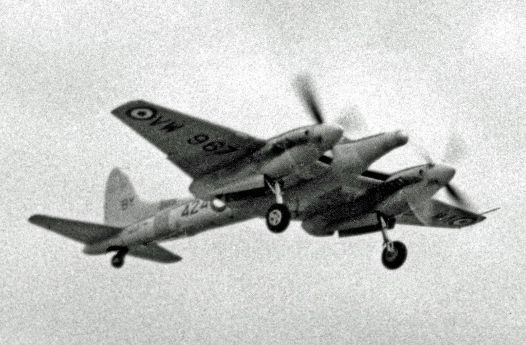 DH.103 Sea Hornet NF.21 VW967 of the Airwork FRU at St Davids making a flypast at RNAS Stretton, Cheshire, in 1955